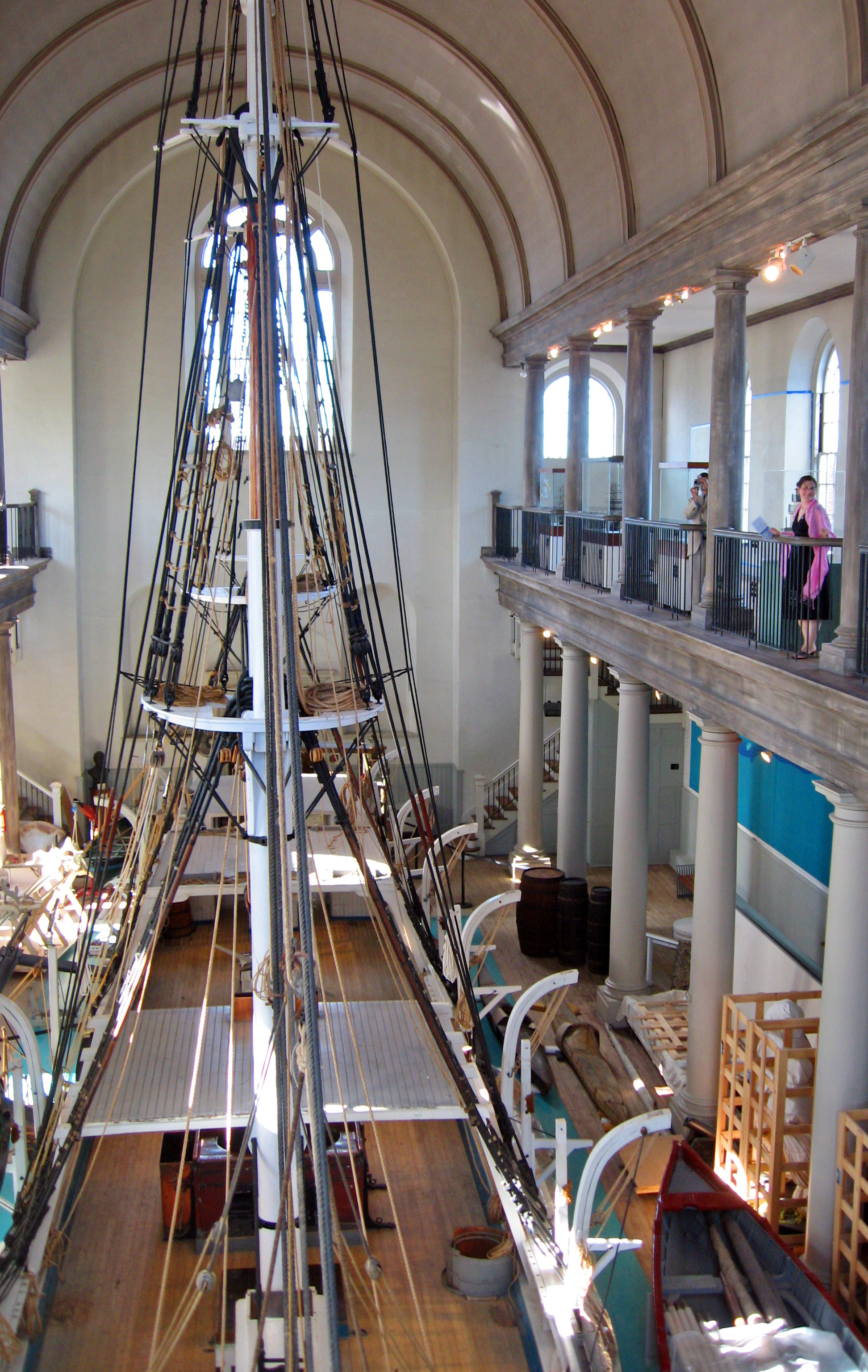 Inside of New Bedford Whaling Museum, New Bedford, MA, USA